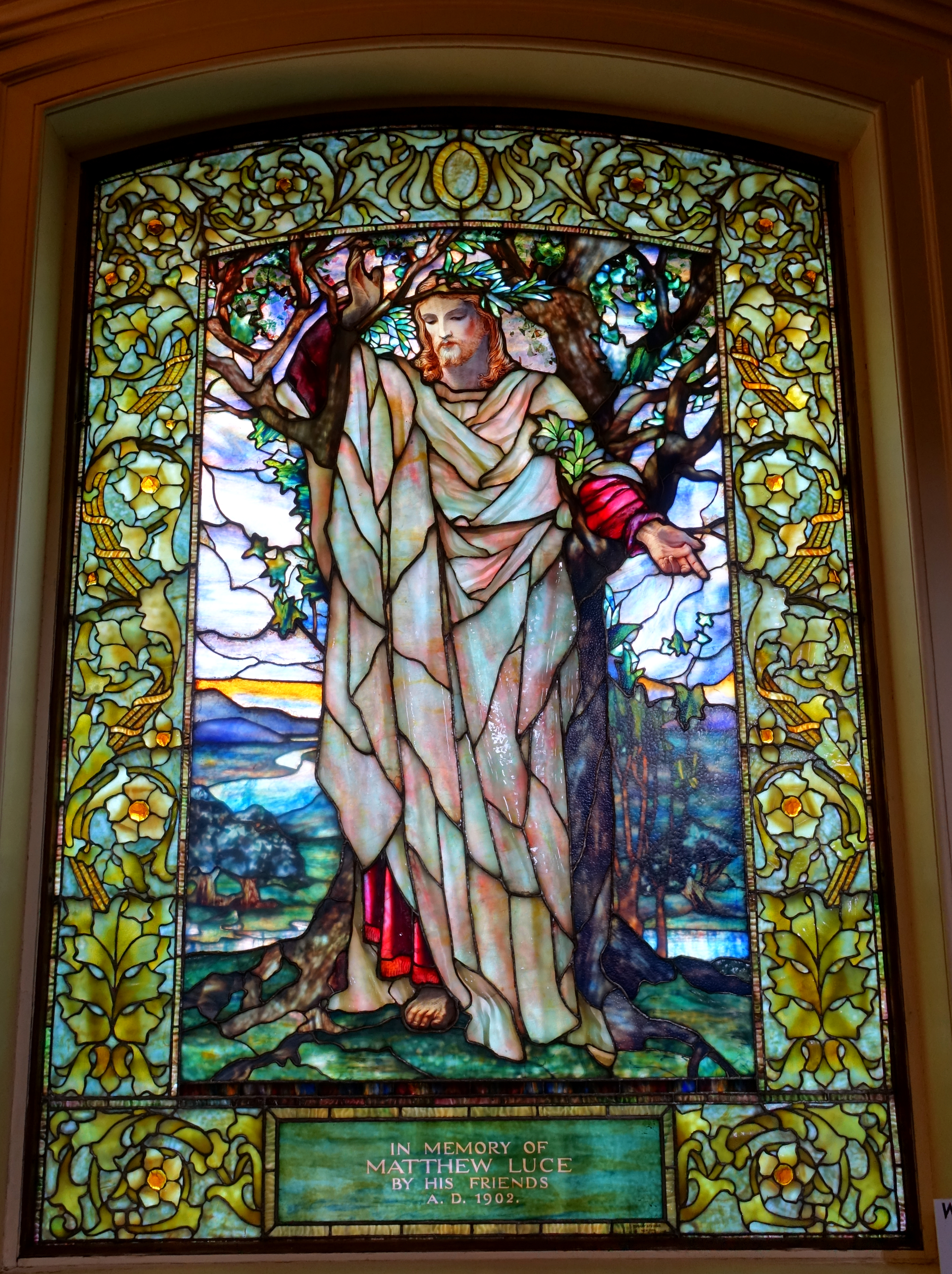 Tiffany stained glass window in the Arlington Street Church, 351-355 Boylston Street, Boston, Massachusetts, USA.